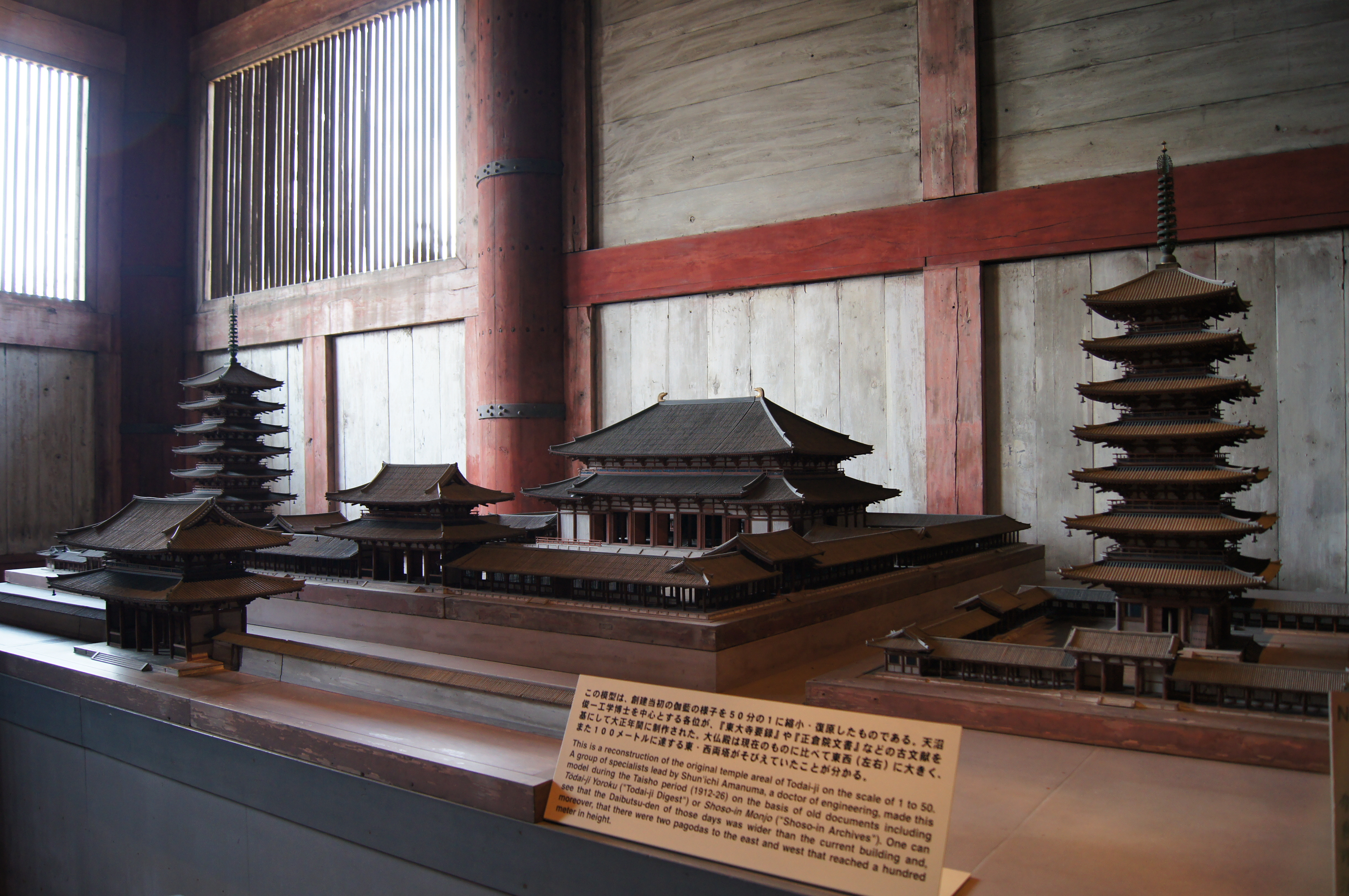 Model of the original Todaiji, with the two pagodas, the Daibutsu-den and the Chu-mon. This model was created arround 1912-1926 under the supervision of Shun'uchi Amanuma.